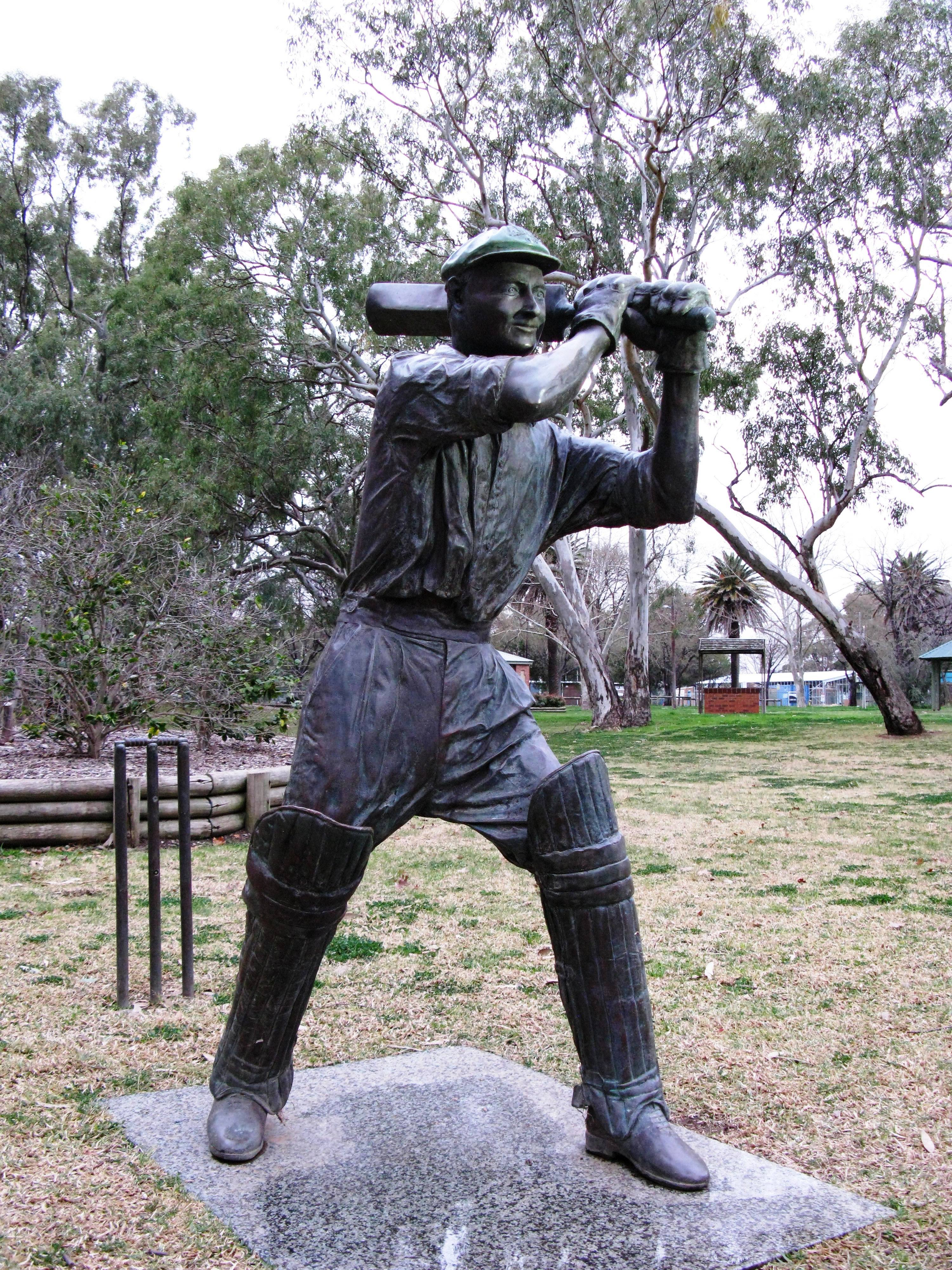 Bronze statue of the Australian cricketer Don Bradman in action, bat aloft. The figure, complete with stumps, is almost life size, and situated in a large park in Cootamundra, New South Wales.